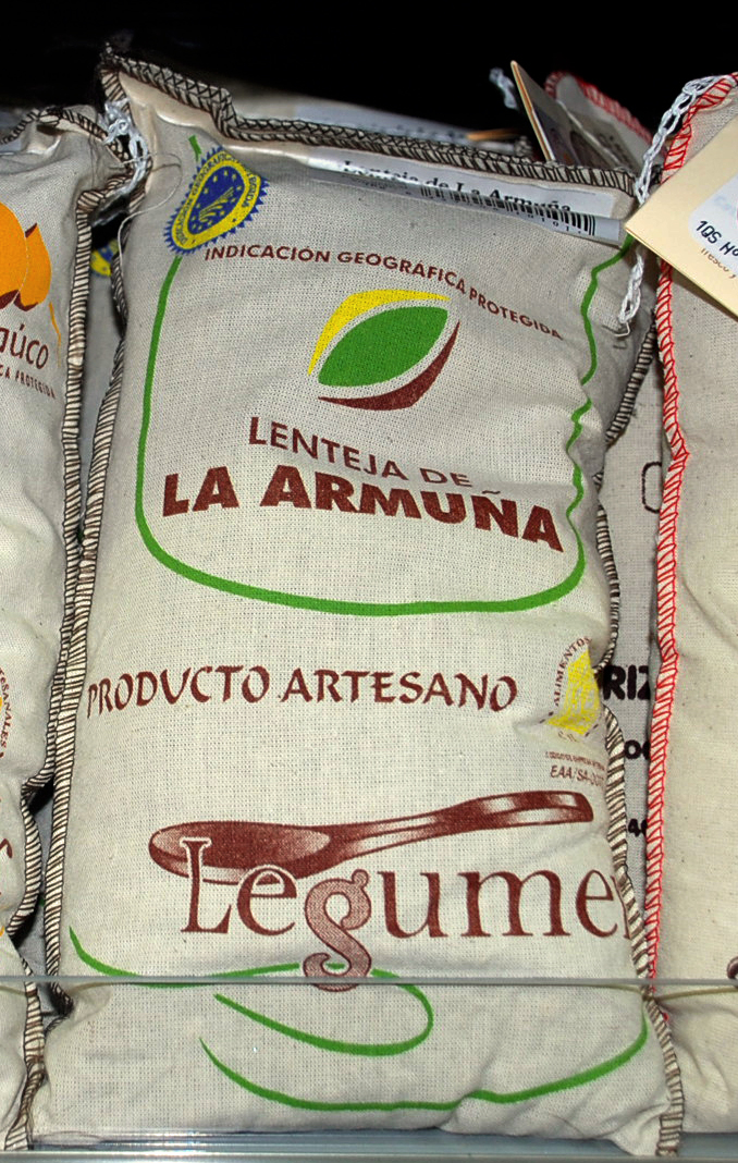 Lentils of La Armuña (Salamanca, Castile and León).